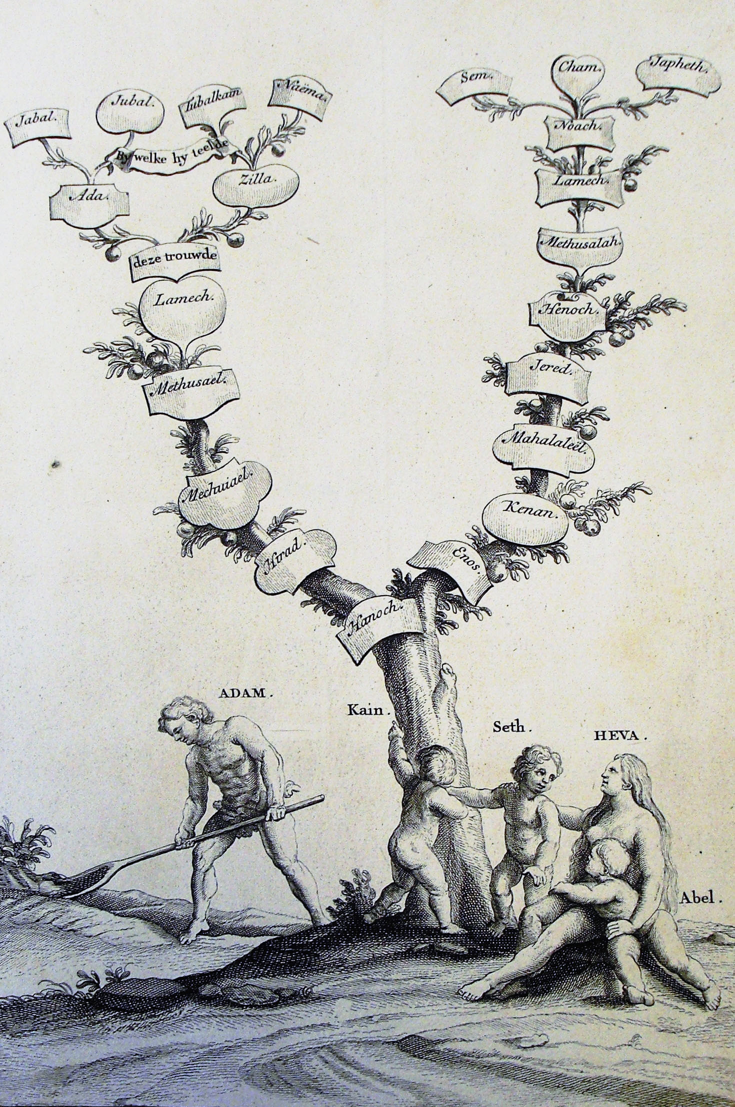 Adam and Eve's descendants. Genesis cap 5. Schenck